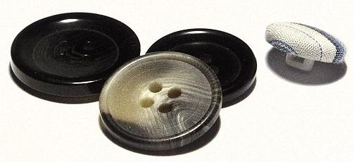 plastic & fabric buttons showing attachment styles